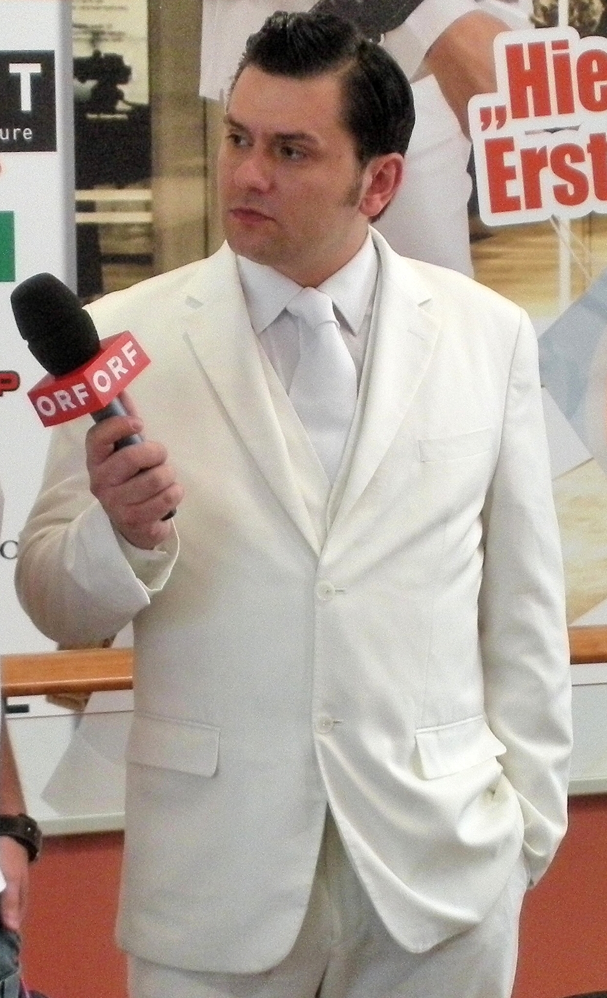 Austrian entertainer „Herr Hermes“, Graz 2010